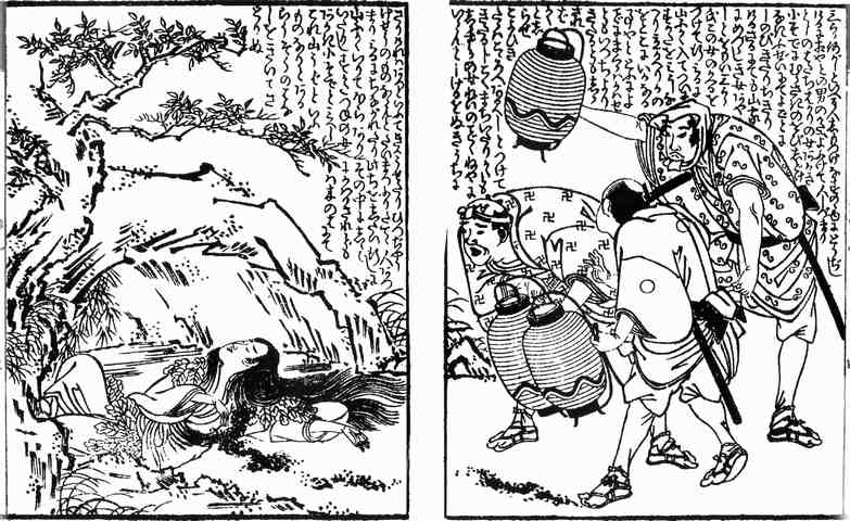 Yama-onna (山女, the mountain woman) from Momonga-Kokaidan (模文画今怪談)